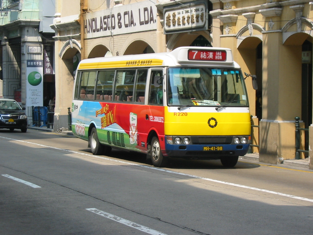 A Transmac Rosa bus running on route 7.